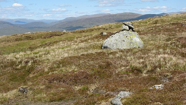 Small cairn, Stob na Cruaiche Probably a stalker's navigation aid.